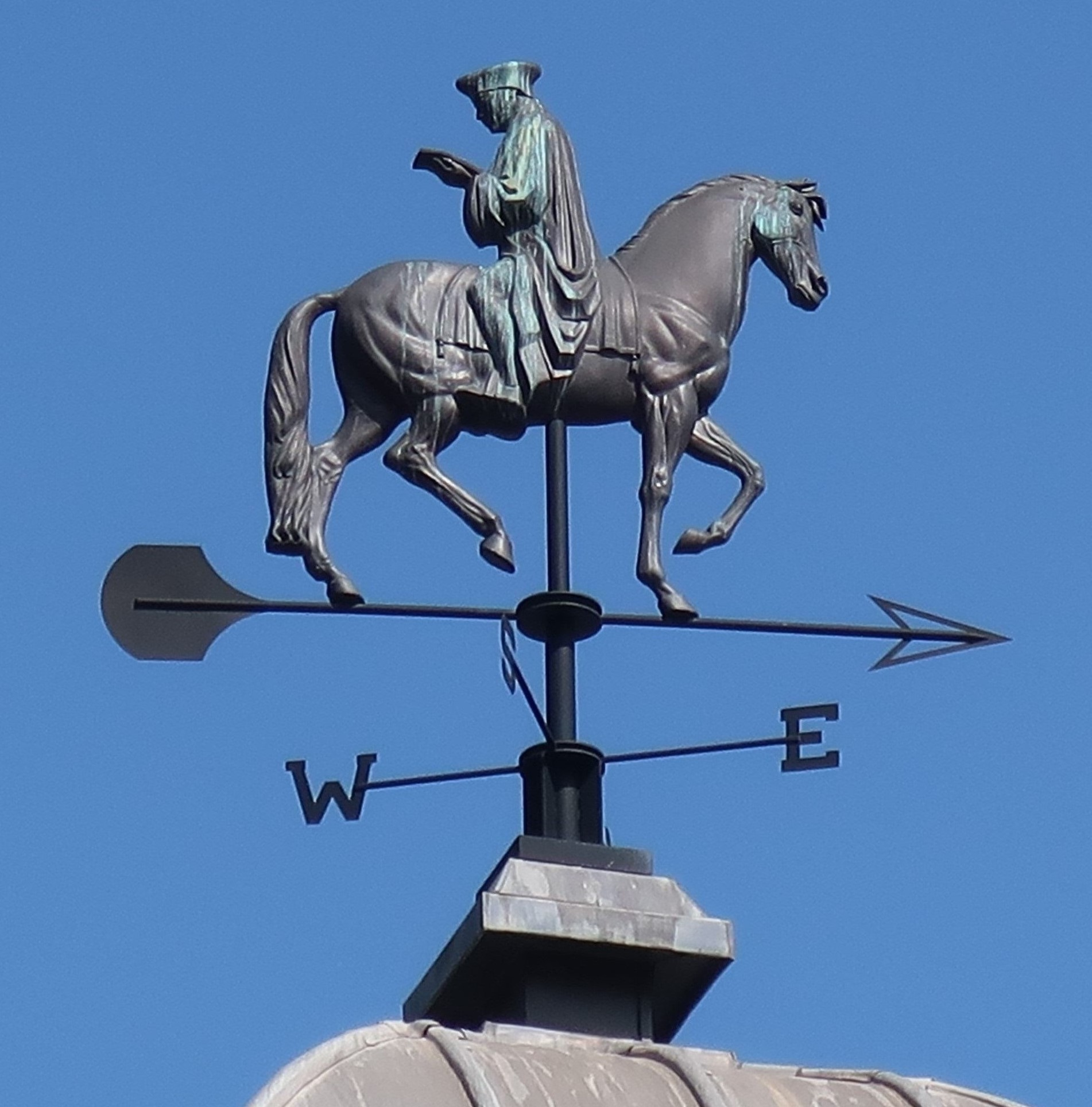 Erasmus weather vane on Whitechapel Gallery (former Passmore Edwards Library building), London E1. Made by Rodney Graham in 2008 (and installed in 2009), it depicts the artist in the guise of 16th-century humanist scholar Desiderius Erasmus.